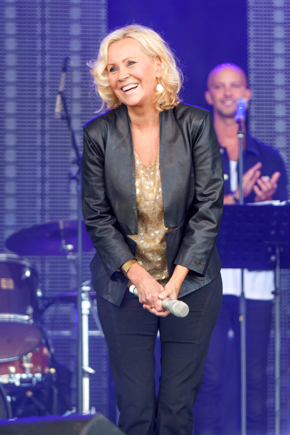 Agnetha Fältskog at Stockholm Schlager Night, 1 August 2013